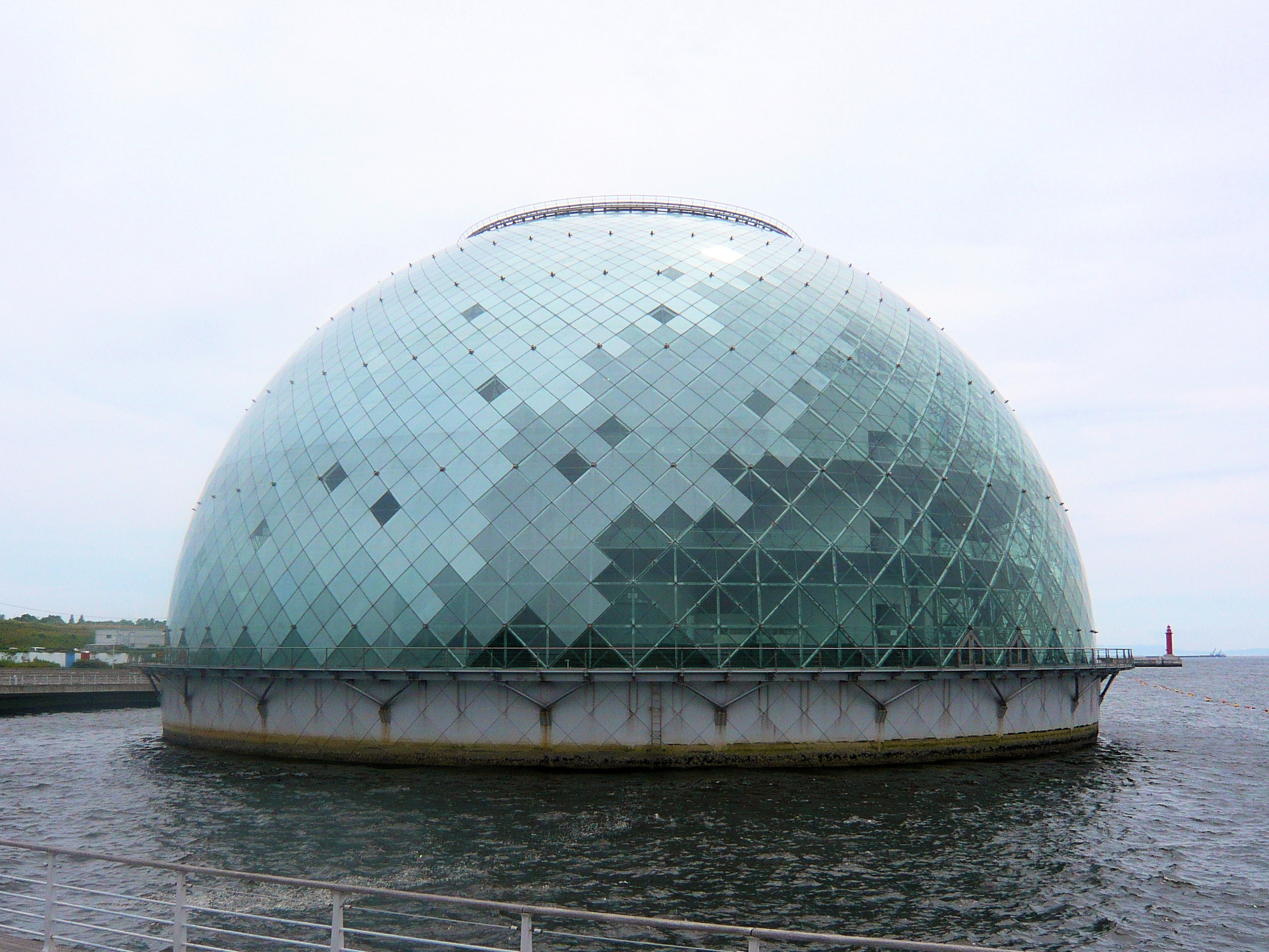 Osaka Maritime Museum, Osaka, Japan.